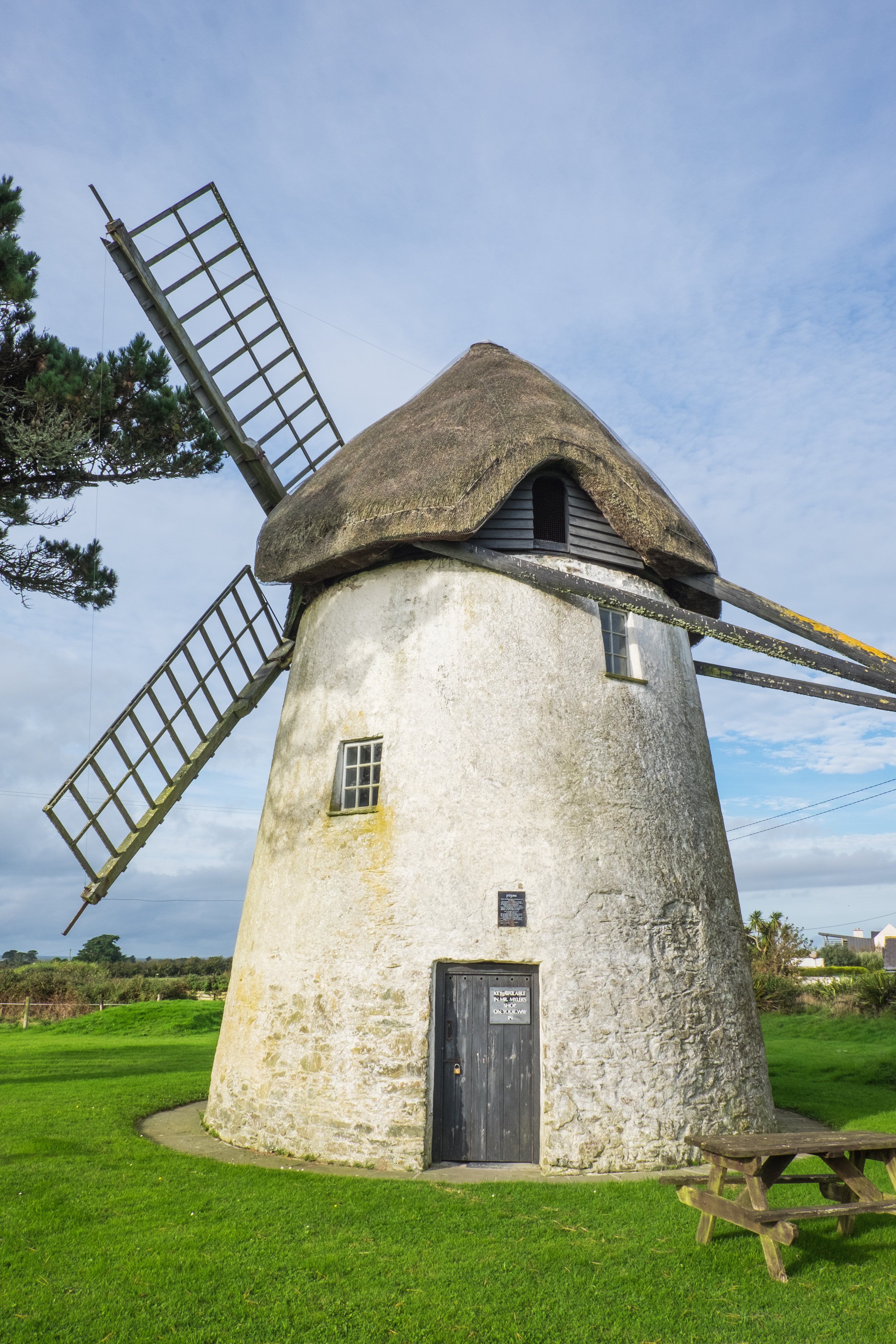 Tacumshane Windmill, County Wexford, Ireland. Built in 1846, this windmill is now recorded by the Archaeological Survey of Ireland. This object is indexed in the Archaeological Survey of Ireland under SMR No. WX053-006----Geographic information system of the National Monuments Service: Historic Environment Viewer – Database record.